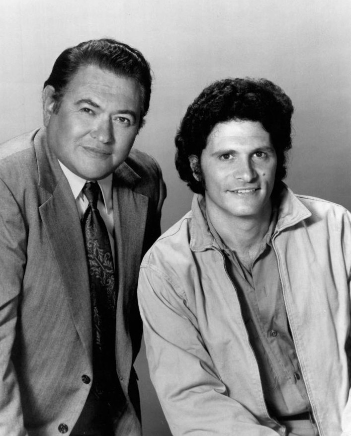 Photo of Simon Oakland as Inspector Spooner and Tony Musante as David Toma from the television program Toma.